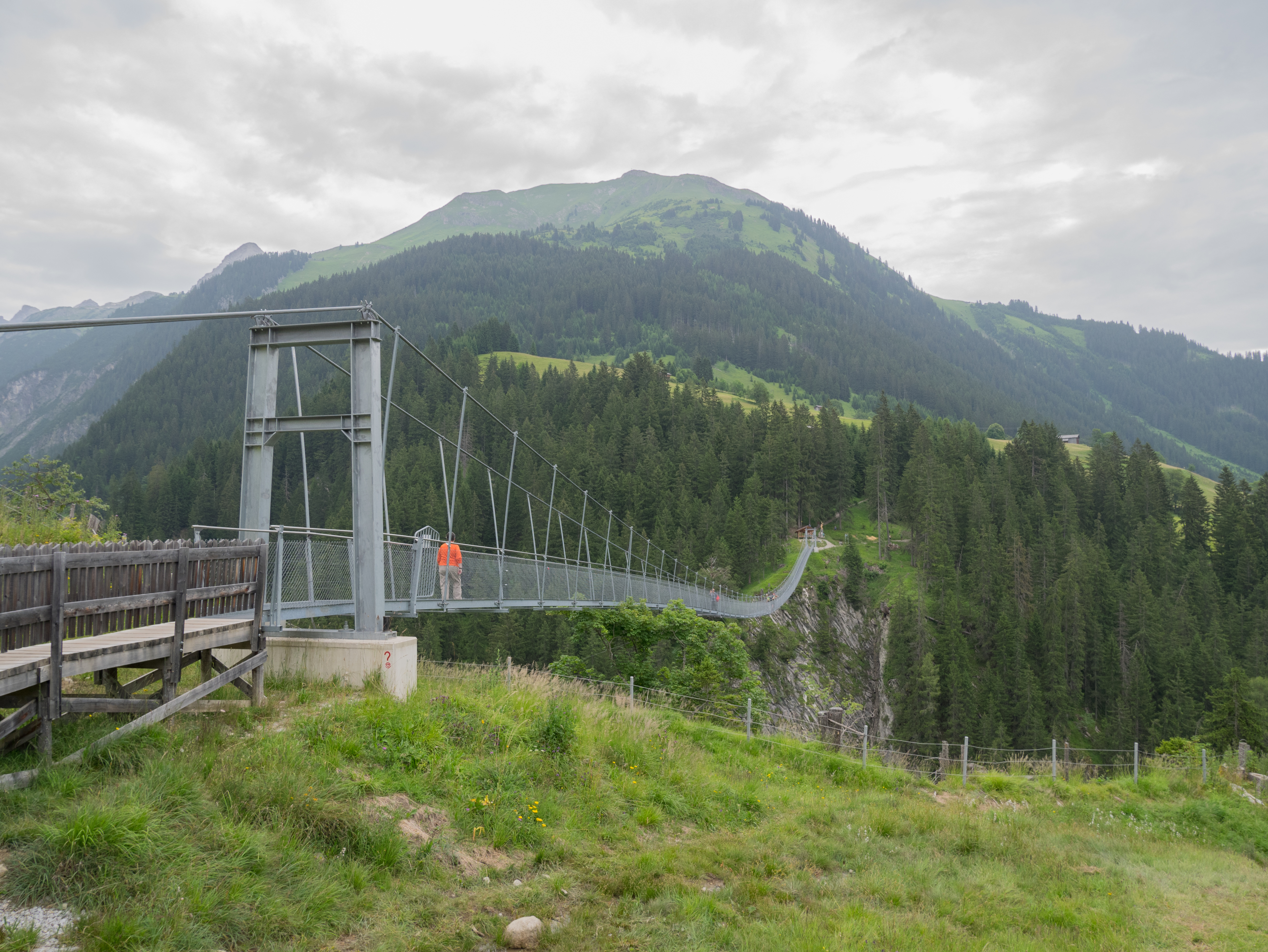 Suspension bridge over the Höhenbach gorge, near Holzgau. Lechtal, Tyrol, Austria